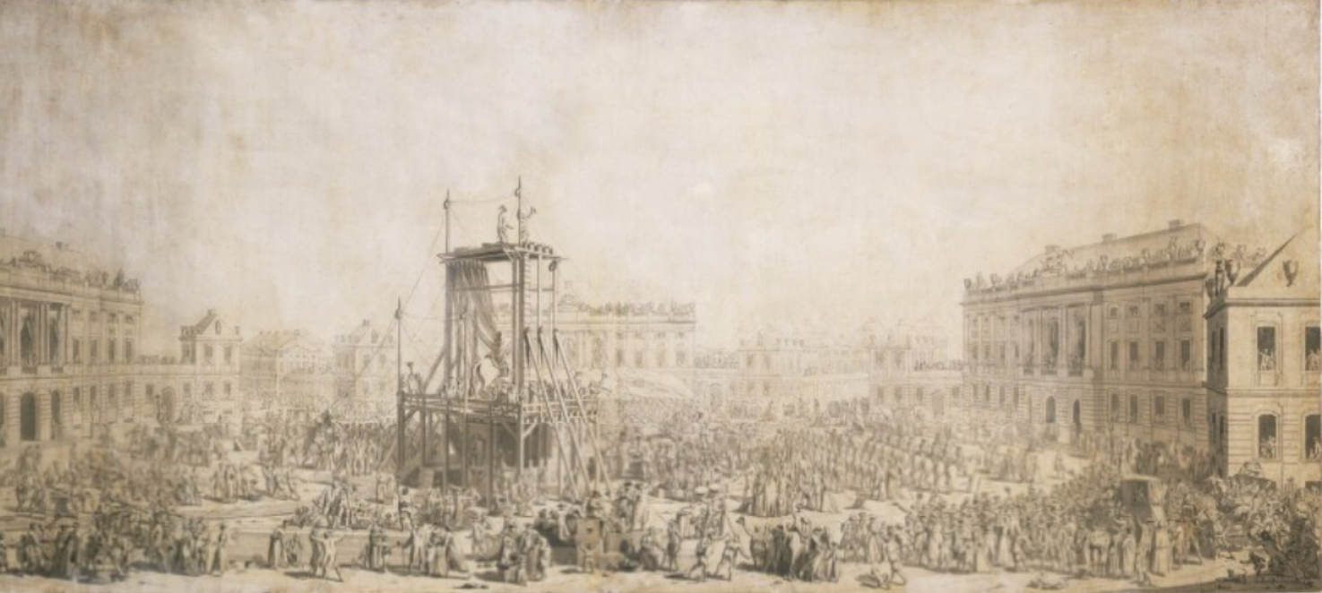 The installation of the equestrian statue of Frederick V on Amalienborg Slotsplads as it appeared 17:30 on 16 August 1768 from the Schack Mansion in Copenhagen, Denmark.